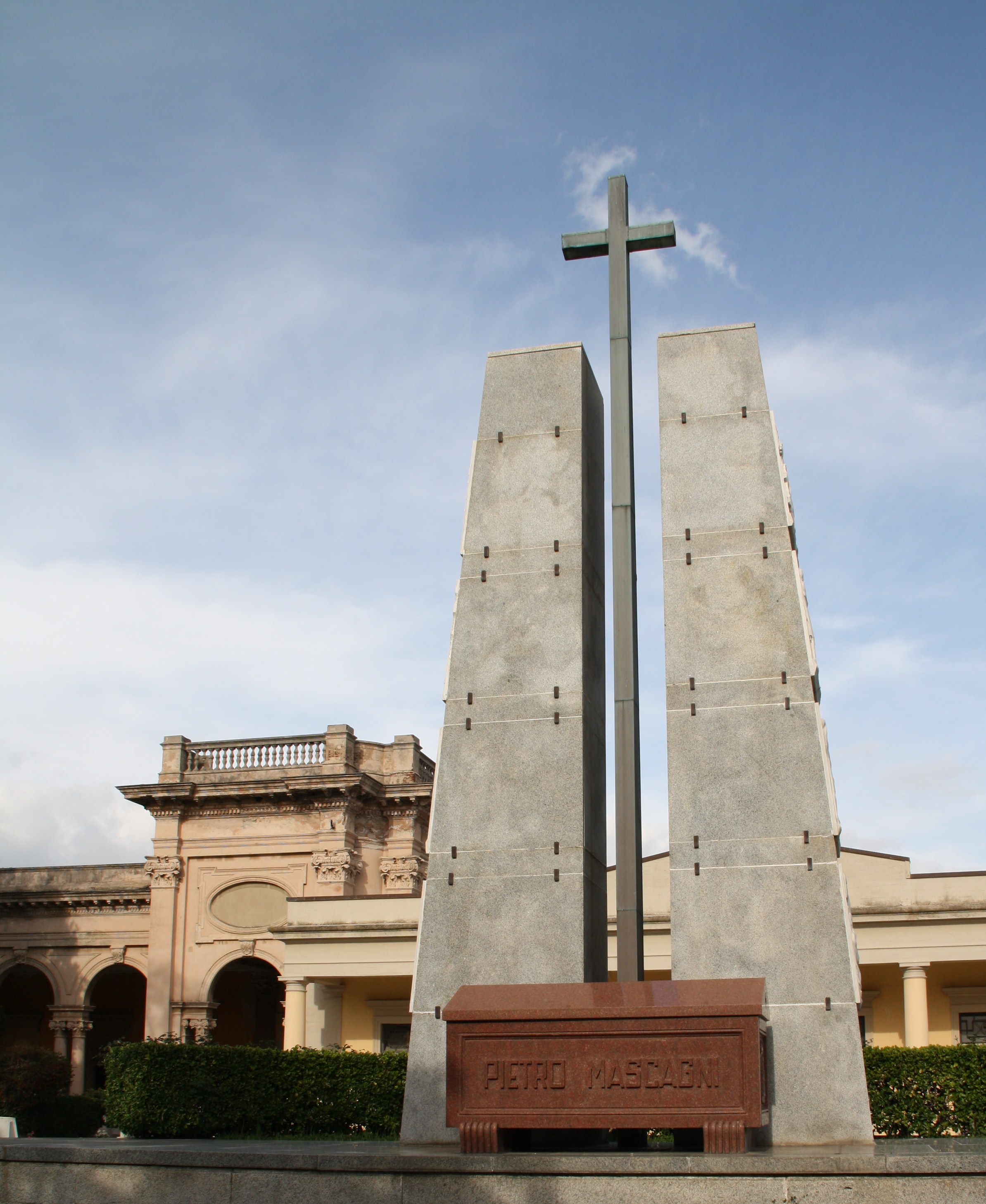 Italy, Livorno, Via dell’Ardenza, Cimitero della Misericordia, Mausoleo Pietro Mascagni. The gravestone of Pietro Mascagni situated inside the Cemetery of Mercy.